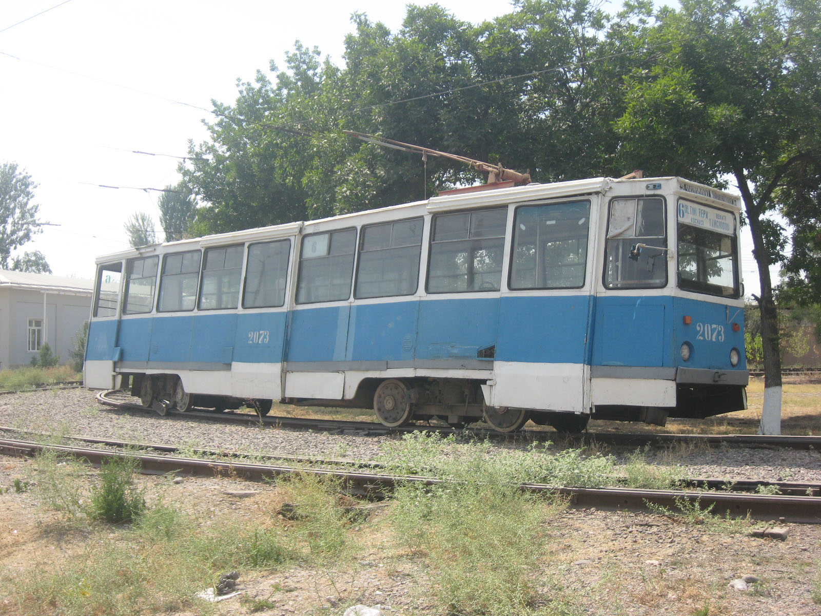 Last KTM-5 wagon in Tashkent